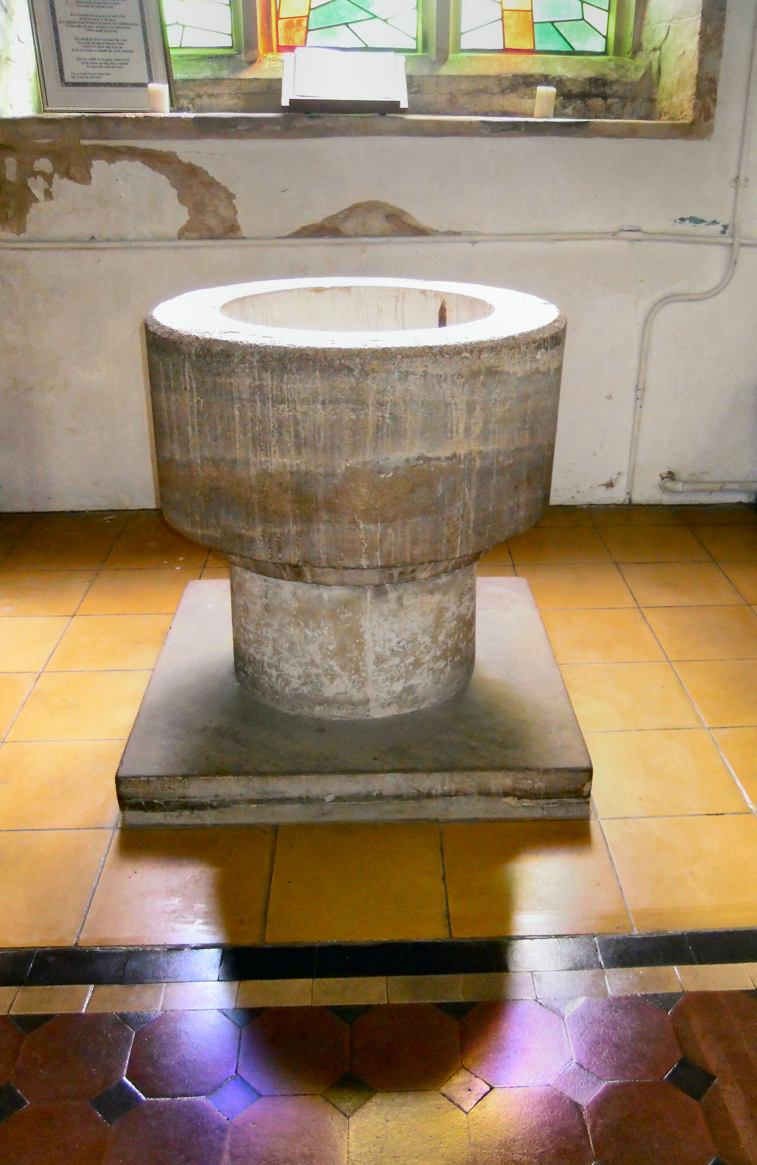 The baptismal font in the Church of St Mary the Virgin in Potton in Bedfordshire